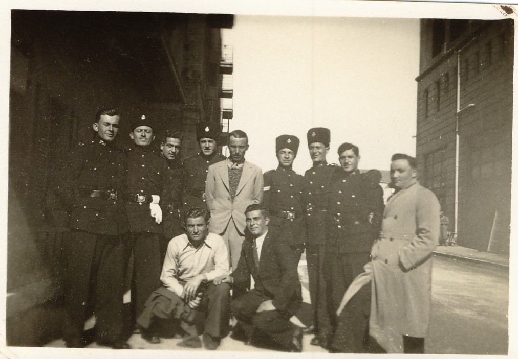 mandatorial police, jerusalem 1936